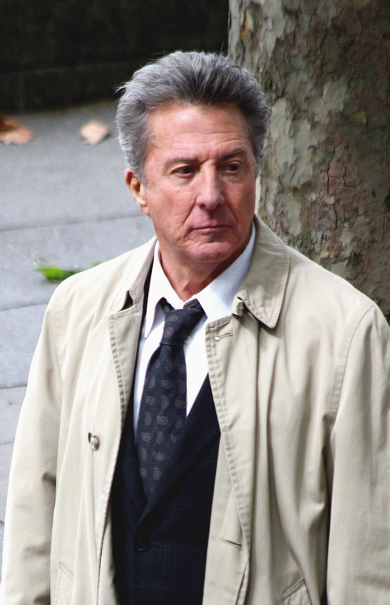 Dustin Hoffman during filming of the ending of Last Chance Harvey.